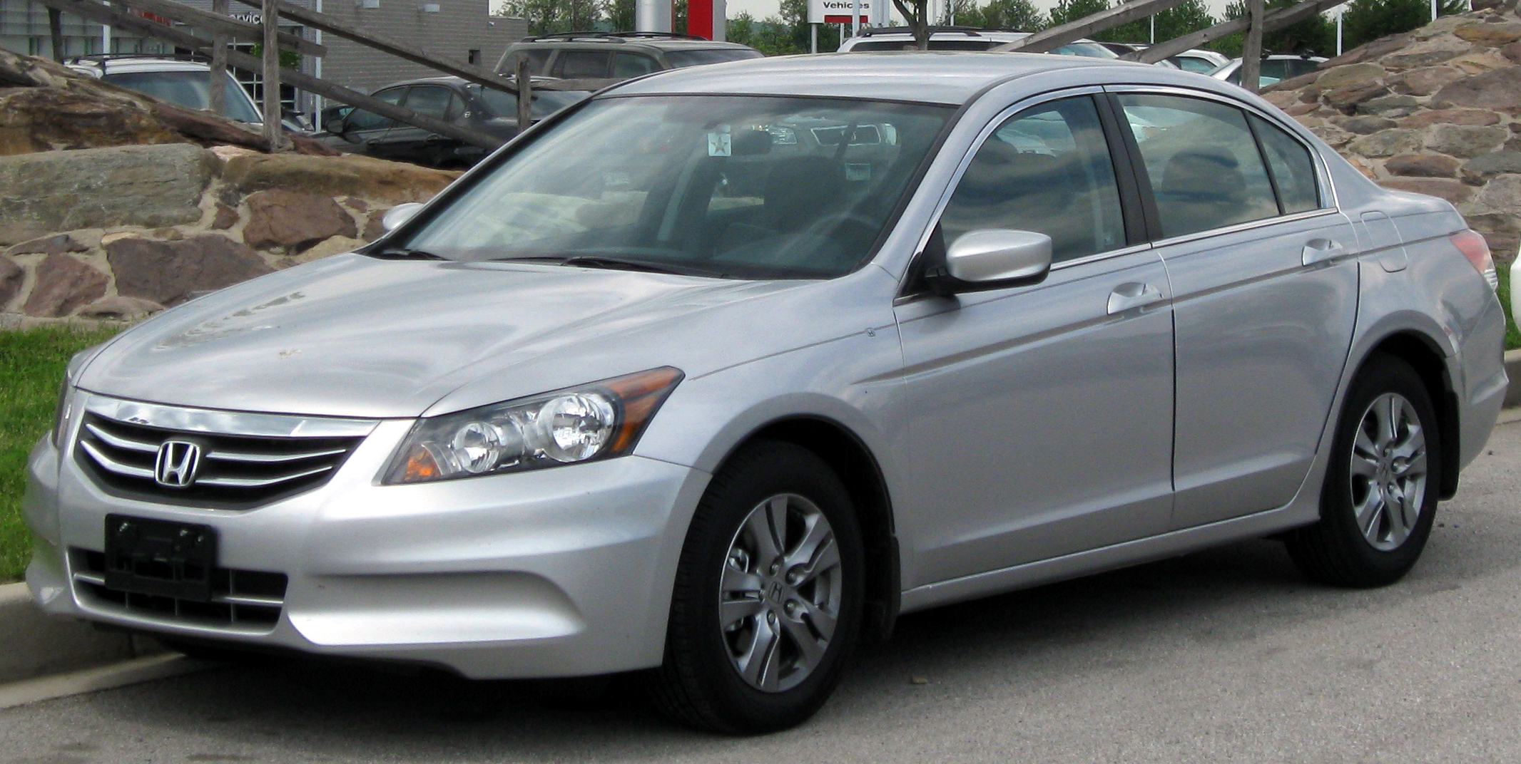 2011 Honda Accord photographed in Clarksville, Maryland, USA.